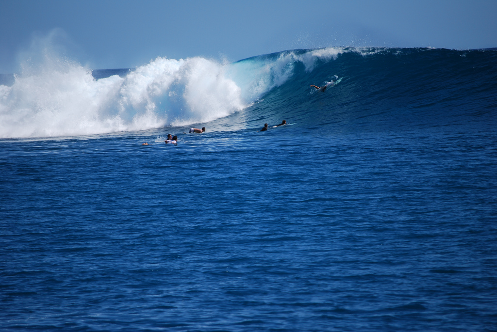 Surf holiday in the Mentawai Islands of West Sumatra, Indonesia